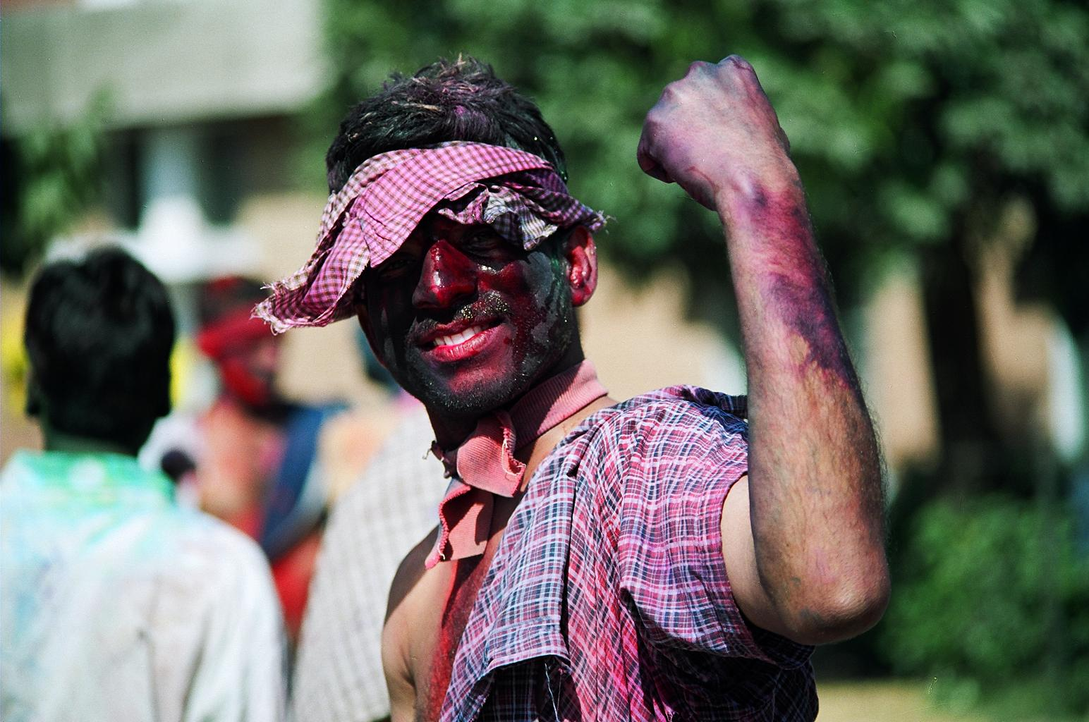 Indian celebrating Holi festival